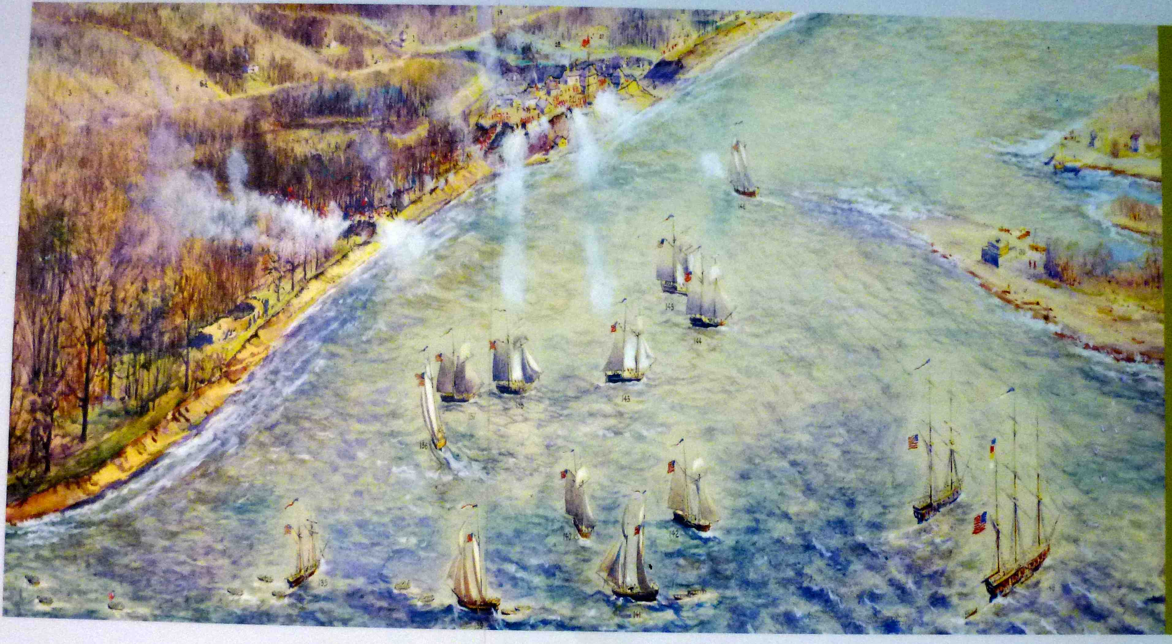 Watercolour of the naval contingent of the American forces during the Battle of York, 1813.